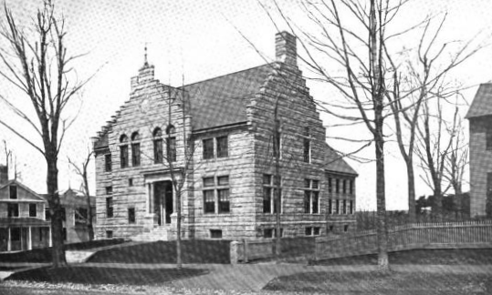 Public library, Massachusetts